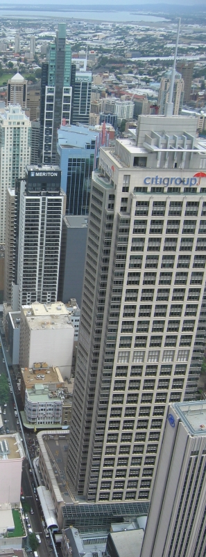 Citigroup Centre, Sydney.